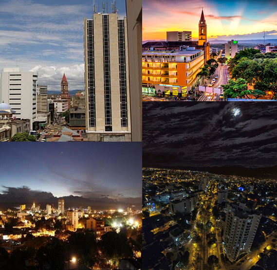 From left to right: Neiva downtown, sunset, sunrise, La Toma Av. at night.